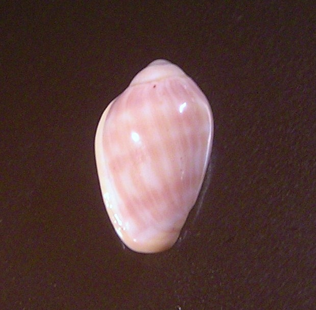 Prunum fulminatum (Kiener, 1841) , a mollusc in the family Marginellidae